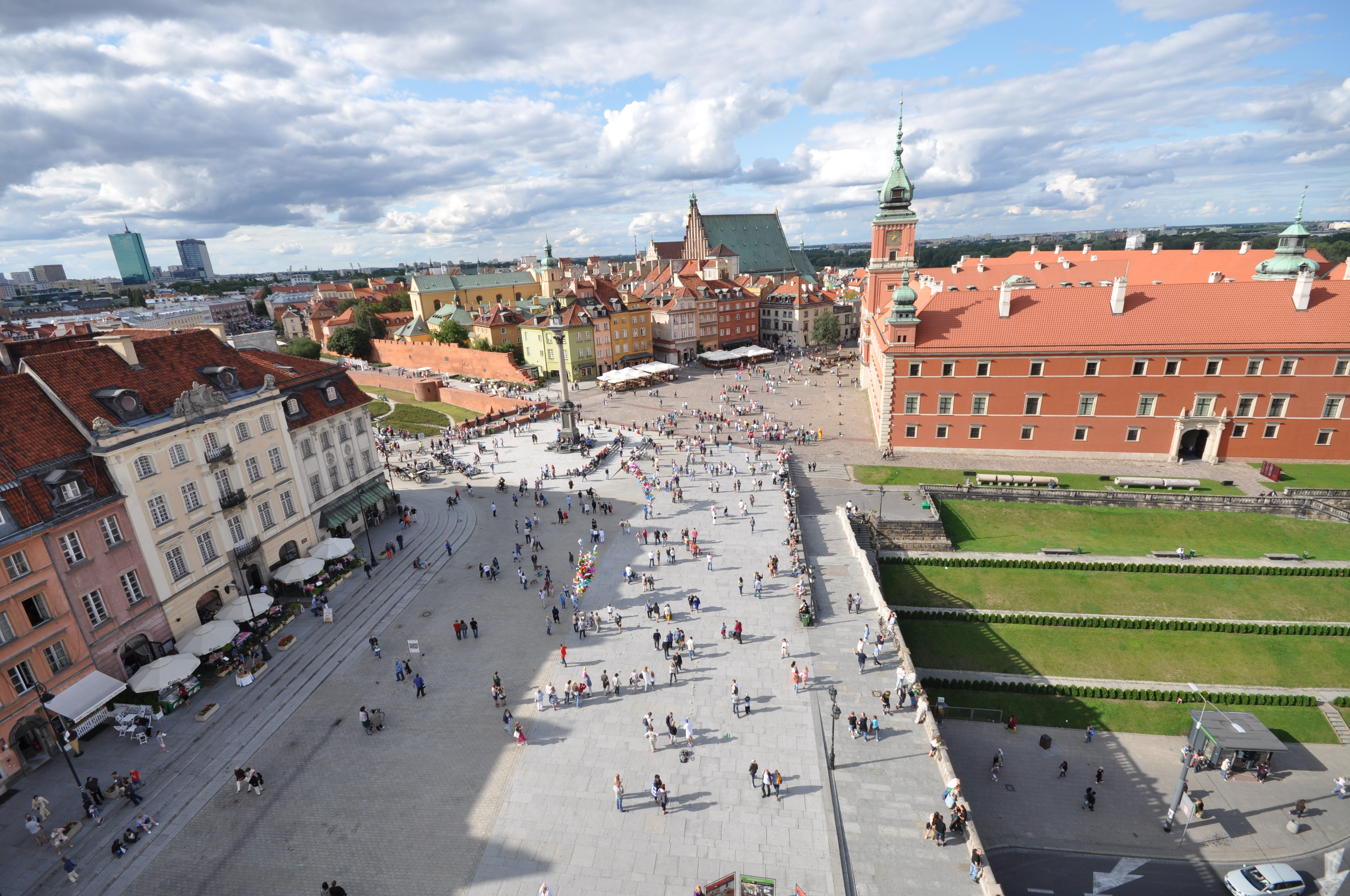 Warsaw's Castle Square (Polish: plac Zamkowy w Warszawie) is a historic square in front of the Royal Castle – the official residence of Polish monarchs – located in Warsaw, Poland. It is a popular meeting place for tourists and locals. The Square (in a more or less triangular shape) features landmark Sigismund's Column to the south-west, and is surrounded by historic townhouses. It marks the beginning of the bustling Royal Road extending to the south